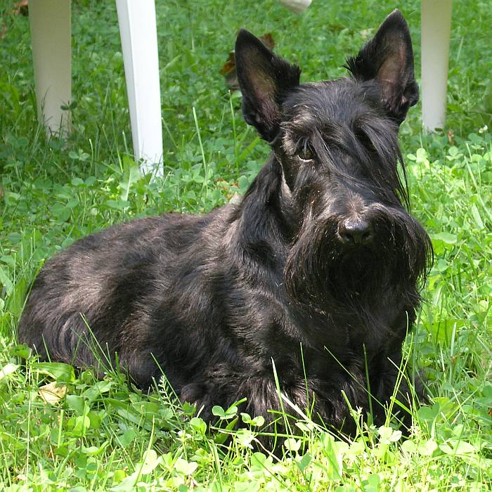 Burleska Alia res, Scotish terrier